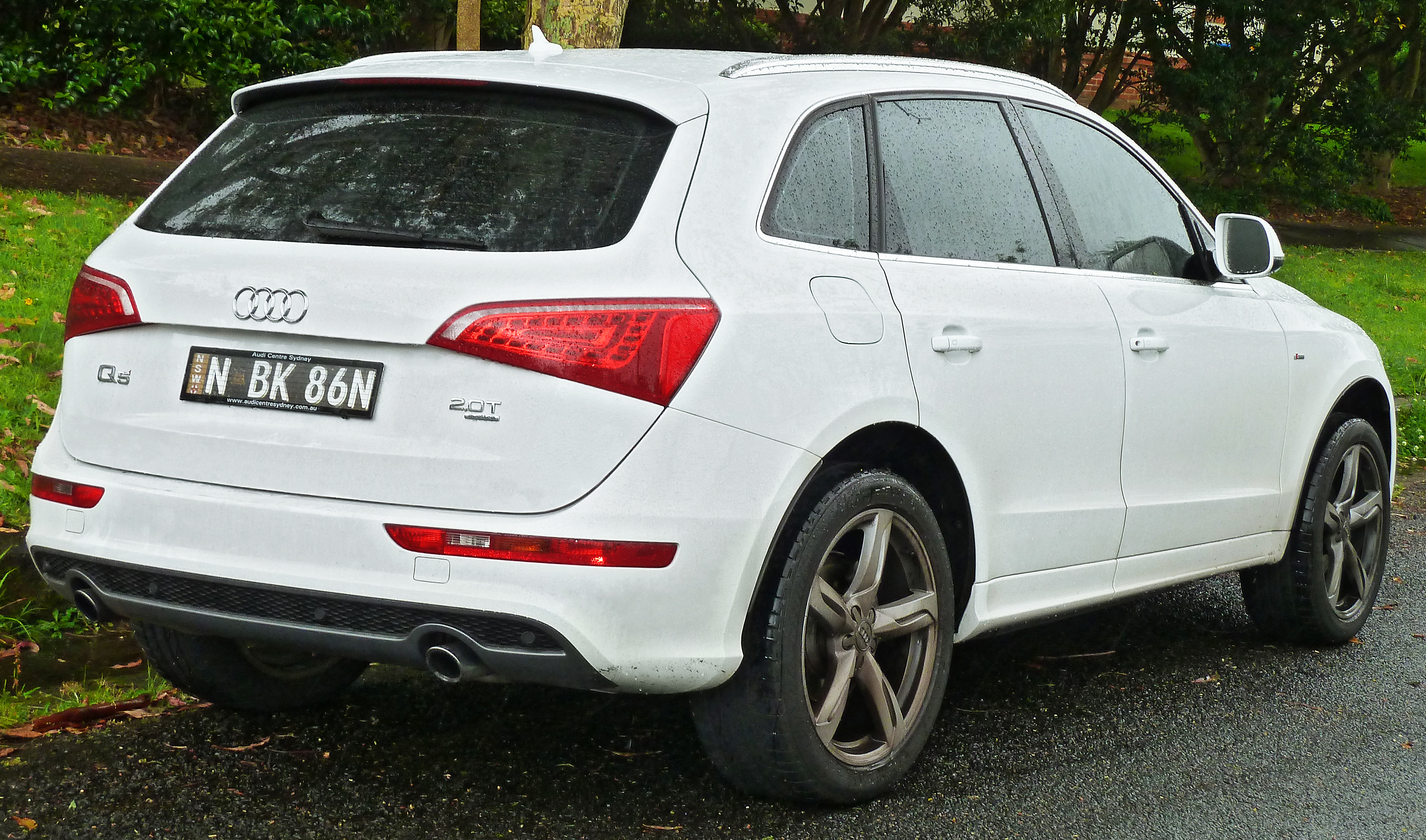 2009–2011 Audi Q5 (8R) 2.0 TFSI quattro wagon. Photographed in Roseville, New South Wales, Australia.